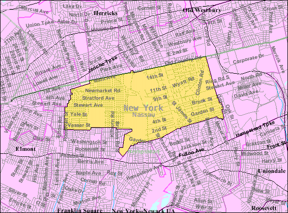 U.S. Census 2000 reference map for Garden City, New York